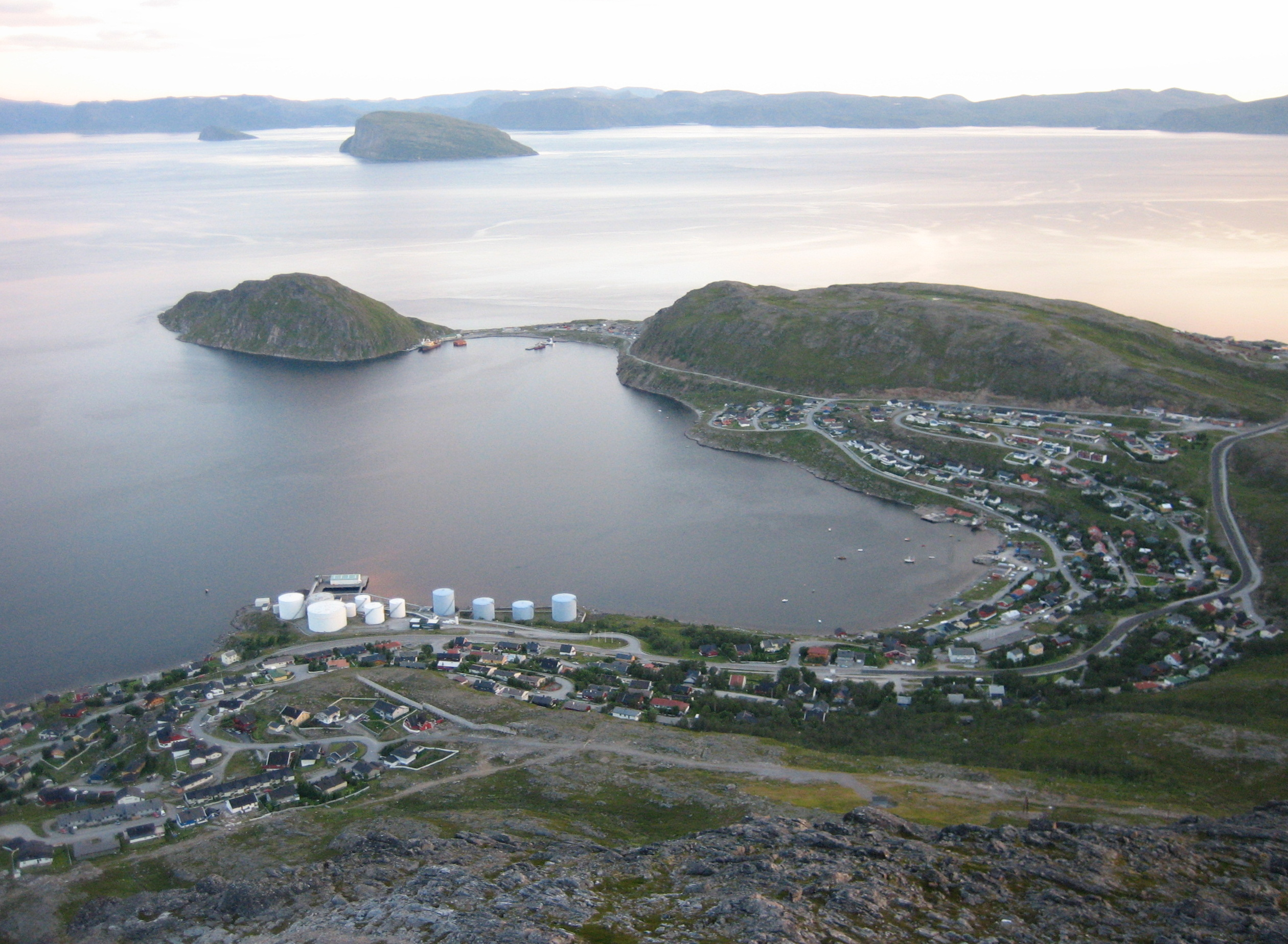 Photo of Outer Rypefjord, taken by me 02.26 AM 30 July, 2007.